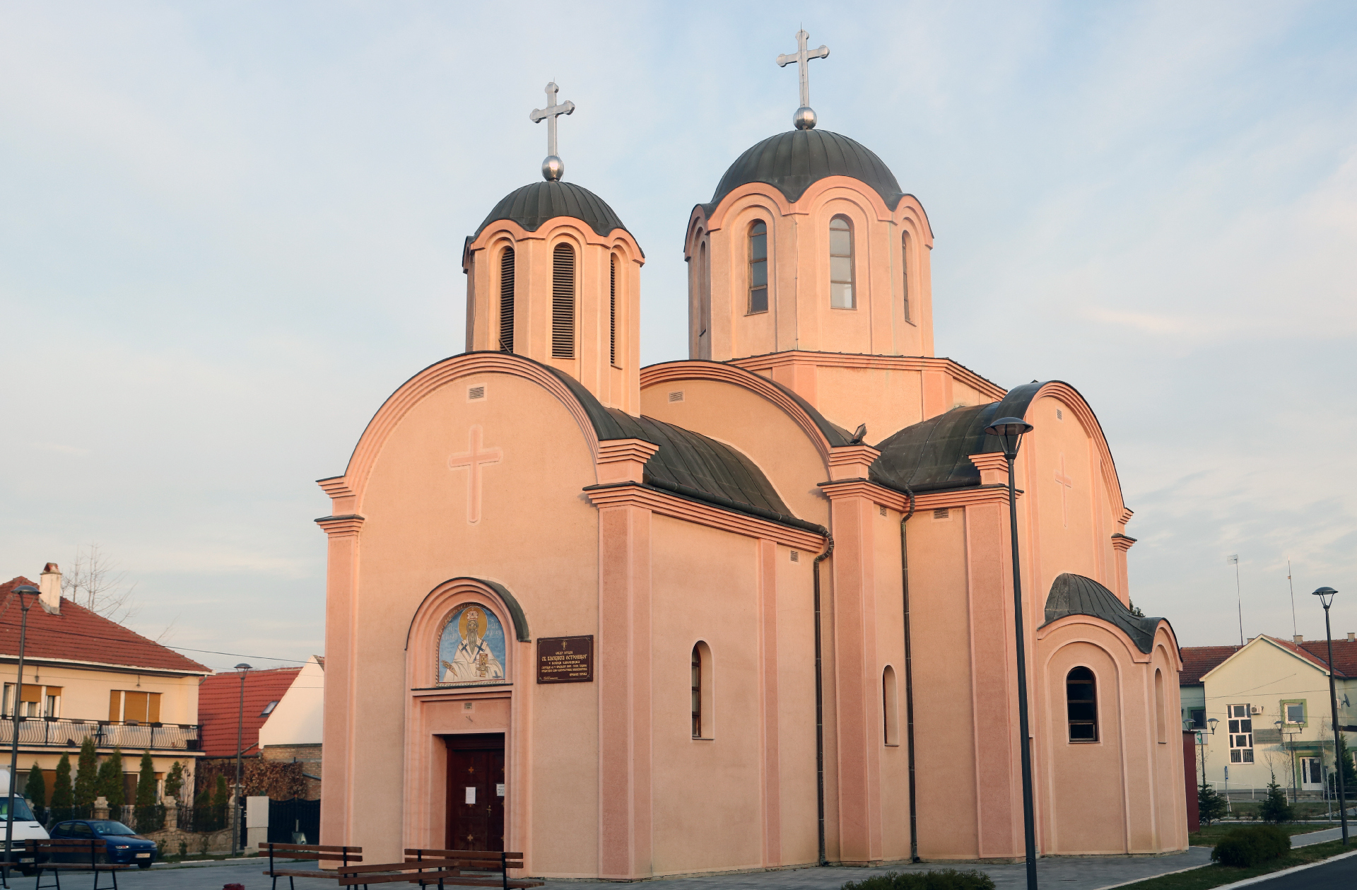 A church in Novi Banovci dedicated to Saint Basil of Ostrog. Srpski (latinica): Crkva u Novim Banovcima, posvećena Svetom Vasiliju Ostroškom.